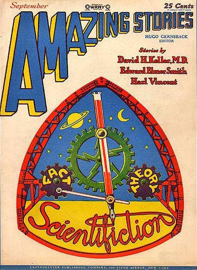 Amazing Stories, September 1928. Published by Experimenter Publishing Company Inc. Art by Frank R. Paul. Source is . One website, has a note that Frank R. Paul's estate claims a copyright on his work. Efforts to contact the estate have not been answered. A search of the copyright records shows no copyrights or renewals by Paul on his early work. Frank R. Paul was an employee of Hugo Gernsback when these covers were created. Paul had to get Gernsback's approval on the proposed artwork for each cover. These early covers are a work for hire. The copyright on the magazine was not renewed and it is in the public domain.